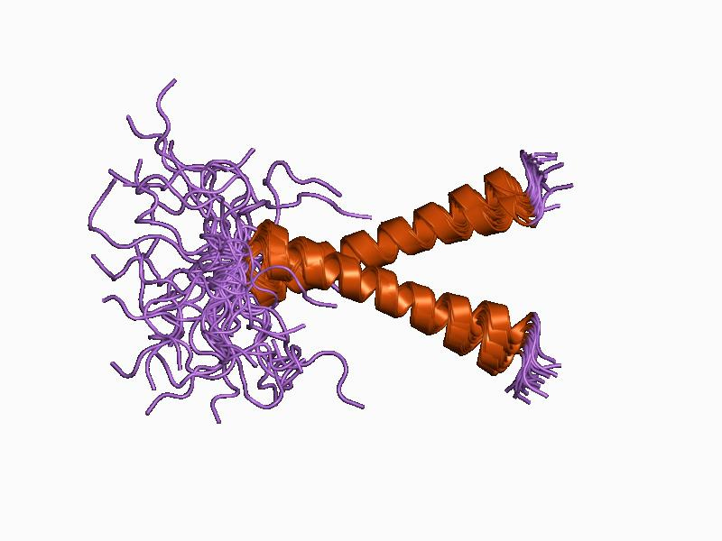 Cartoon representation of the molecular structure of protein registered with 1afo code.